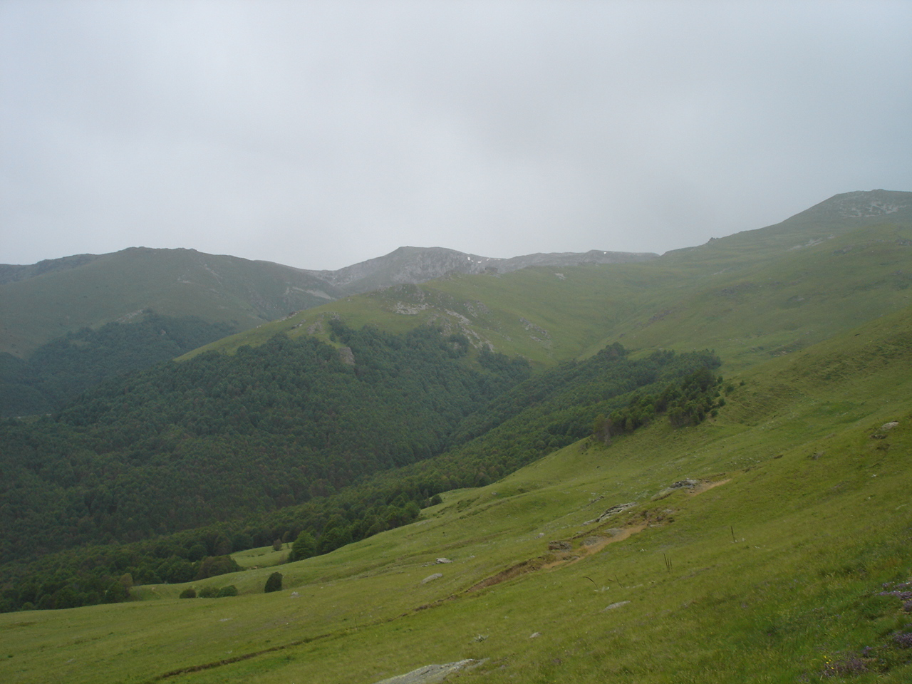 Salakova Mountain on Mokra massif, Macedonia